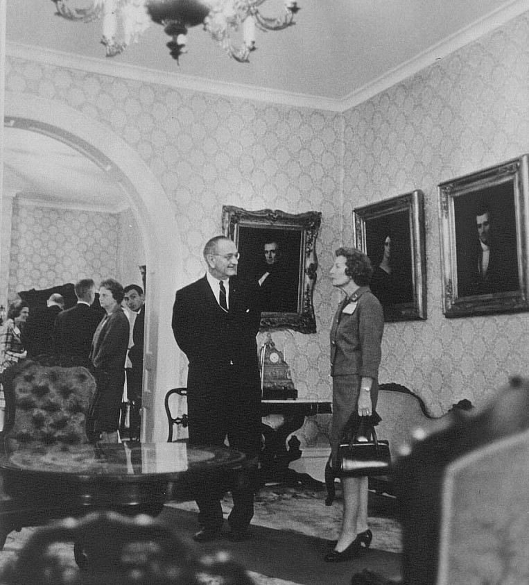 President Lyndon B. Johnson talking with a past Polk Association President within the Polk Home.